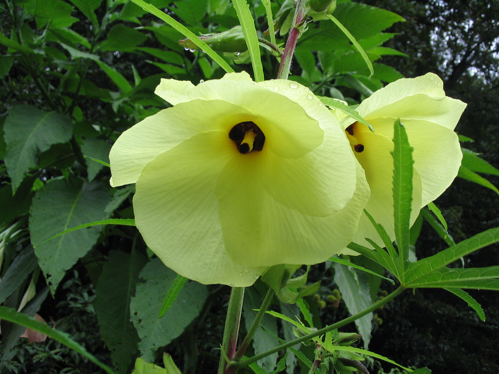 Flowers of Abelmoschus manihot, or sunset hibiscus